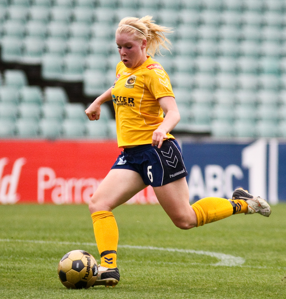 Karina Roweth playing for the Central Coast Mariners against Melbourne Victory in Round 10 of the 2008 W-League.